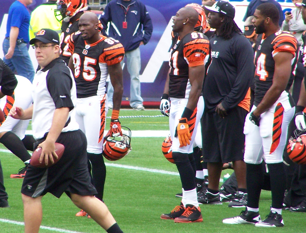 Ochocinco and TO at Gillette stadium.